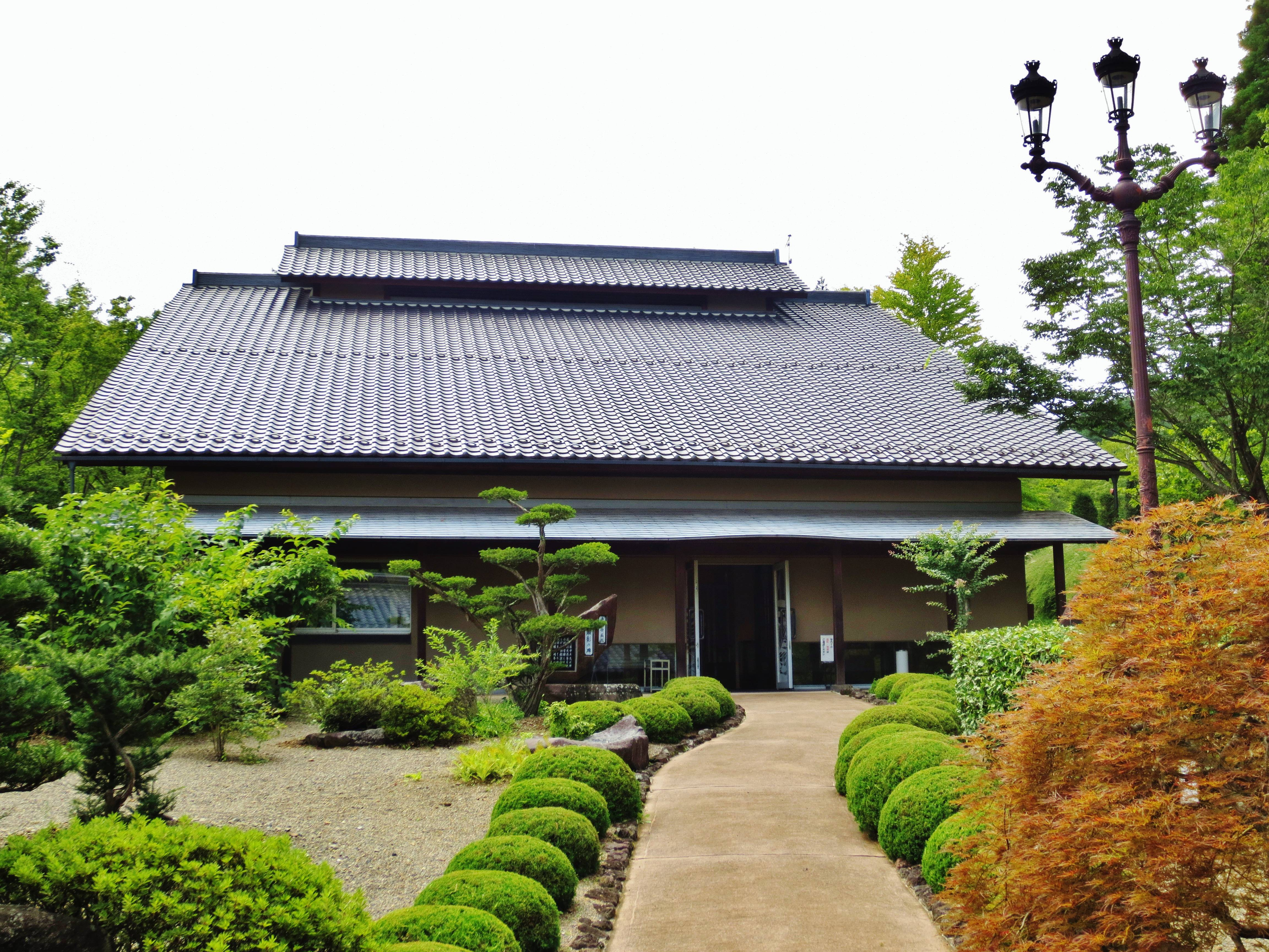 Takeshi Tomoshibi Museum.